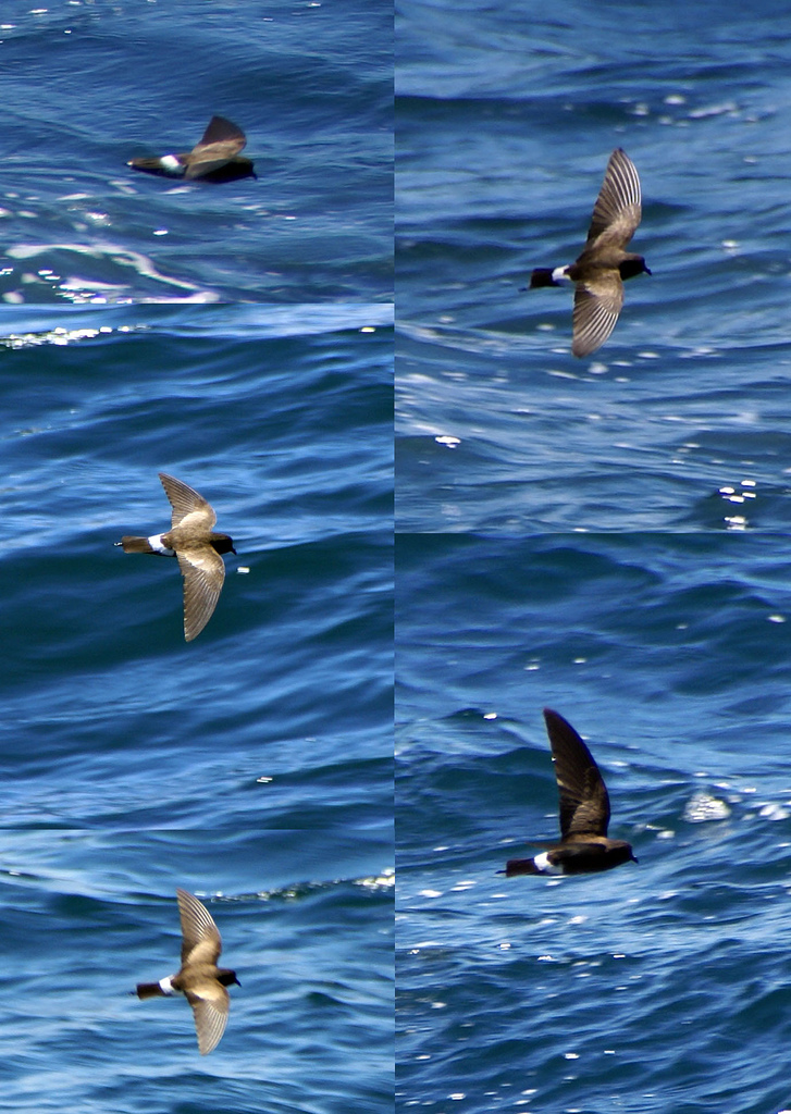 Elliot's Storm-petrel Oceanites gracilis. Galapagos Islands.